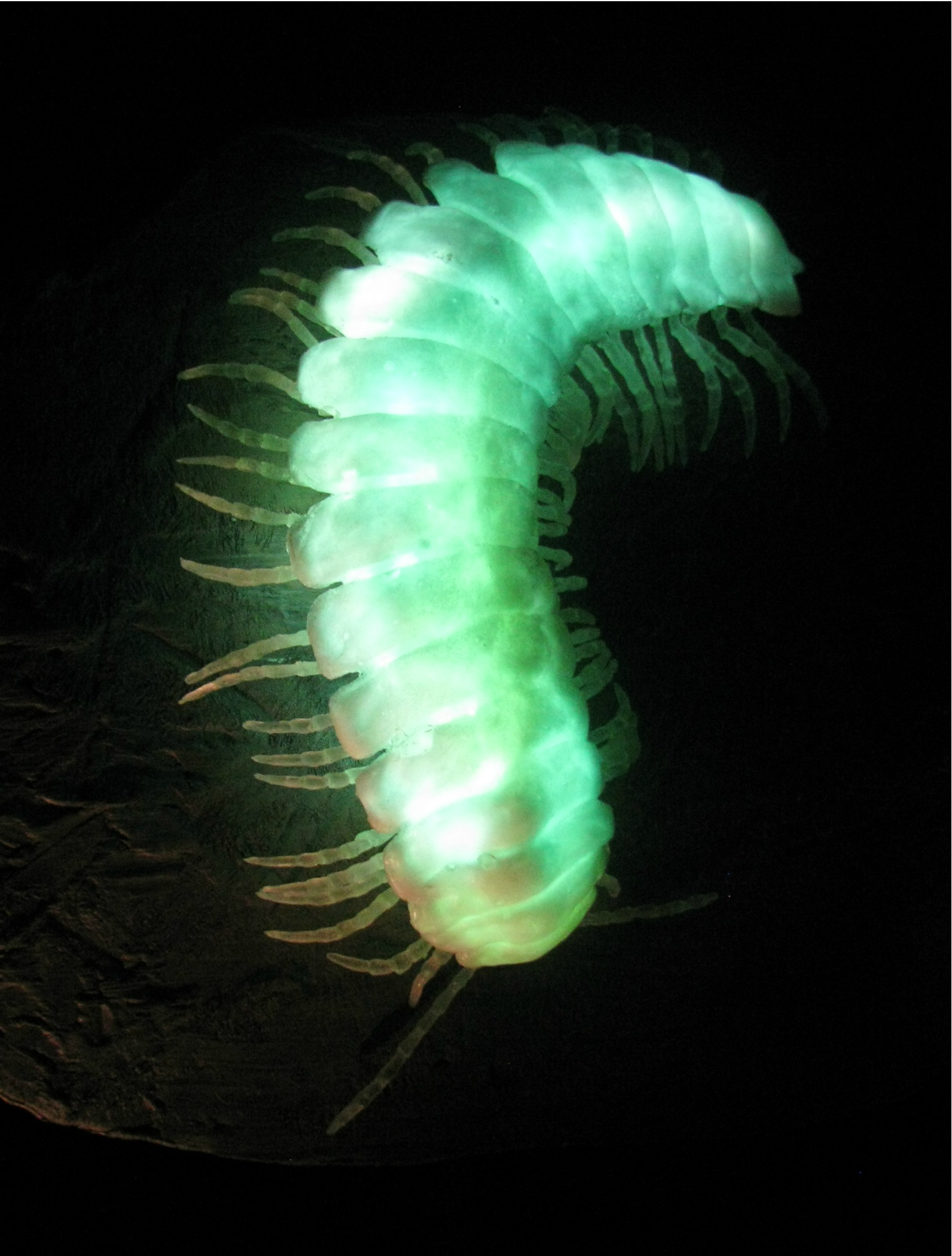 Glowing model of Motyxia sequoiae (about 18x natural size) at the American Museum of Natural History